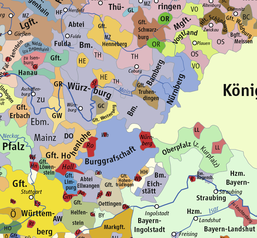 Eastern Franconia in 1400